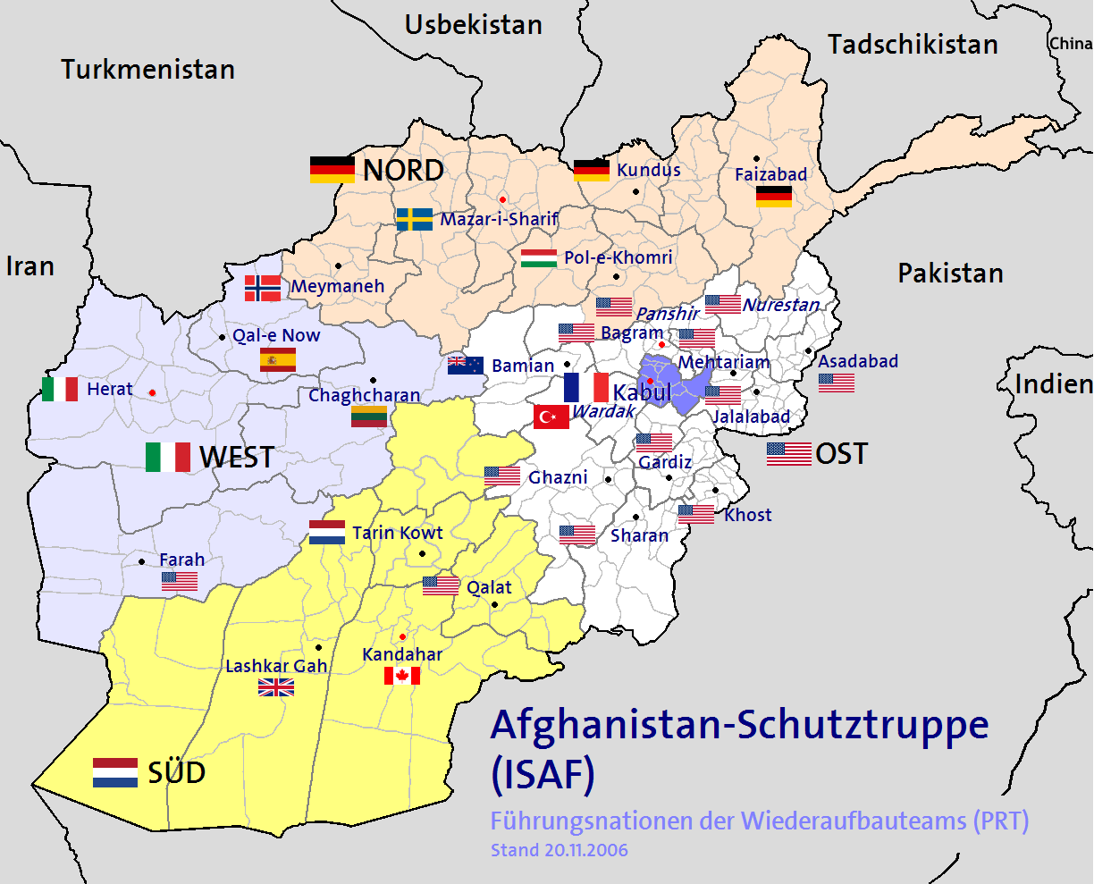 ISAF-Troops under NATO-Command, "Enduring Freedom"-Troops not included